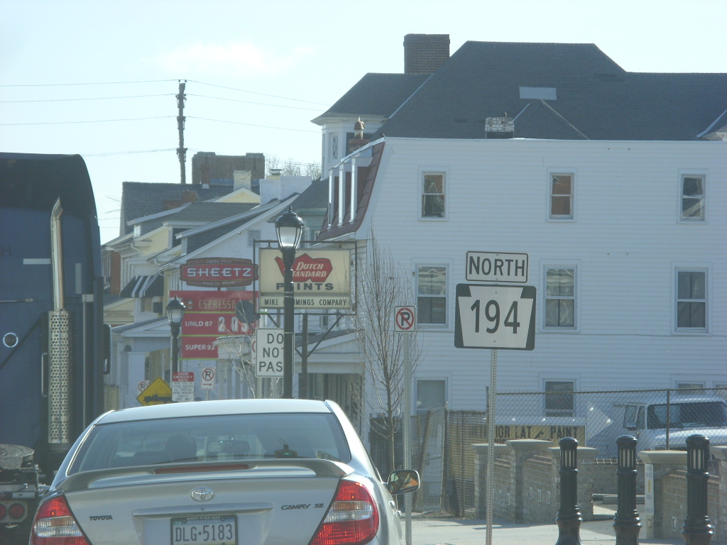 A misprinted shield for Pennsylvania State Route 194 in the community of Littlestown, Pennsylvania.